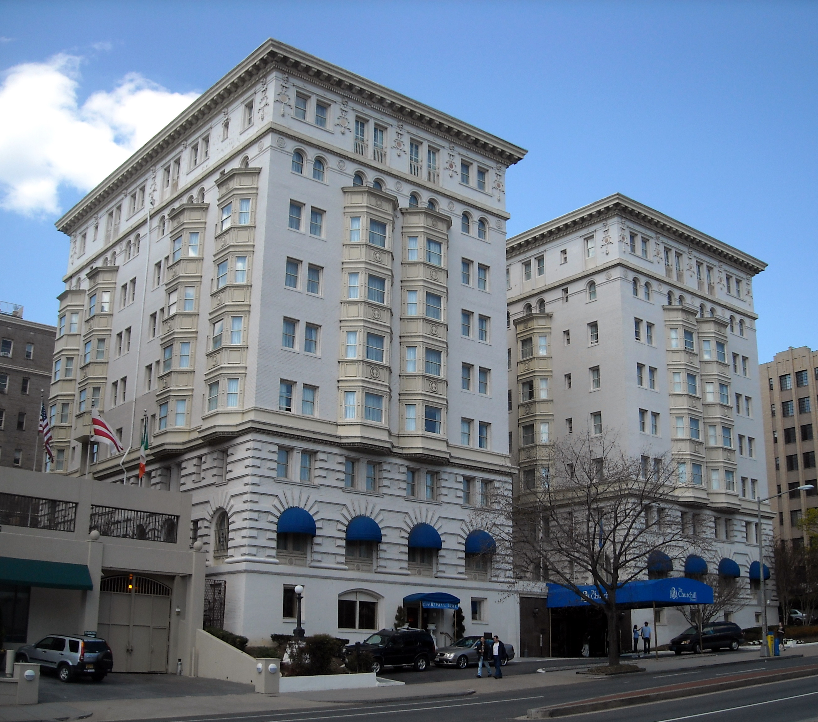 The Churchill Hotel (formerly known as the Pullman Highland Hotel and the Hotel Sofitel) located at 1914 Connecticut Avenue, NW in the Kalorama neighborhood of Washington, D.C. Designed by Arthur B. Heaton in 1906, the Beaux-Arts style building originally served as a luxury apartment house called "The Highlands". The Churchill Hotel is a member of the Historic Hotels of America program and is a contributing property to the Sheridan-Kalorama Historic District.